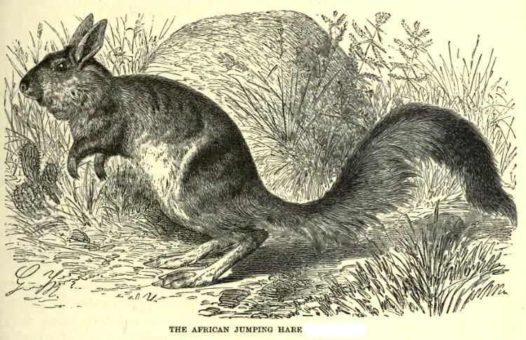 Springhaas Pedetes caffer Pedetes capensis